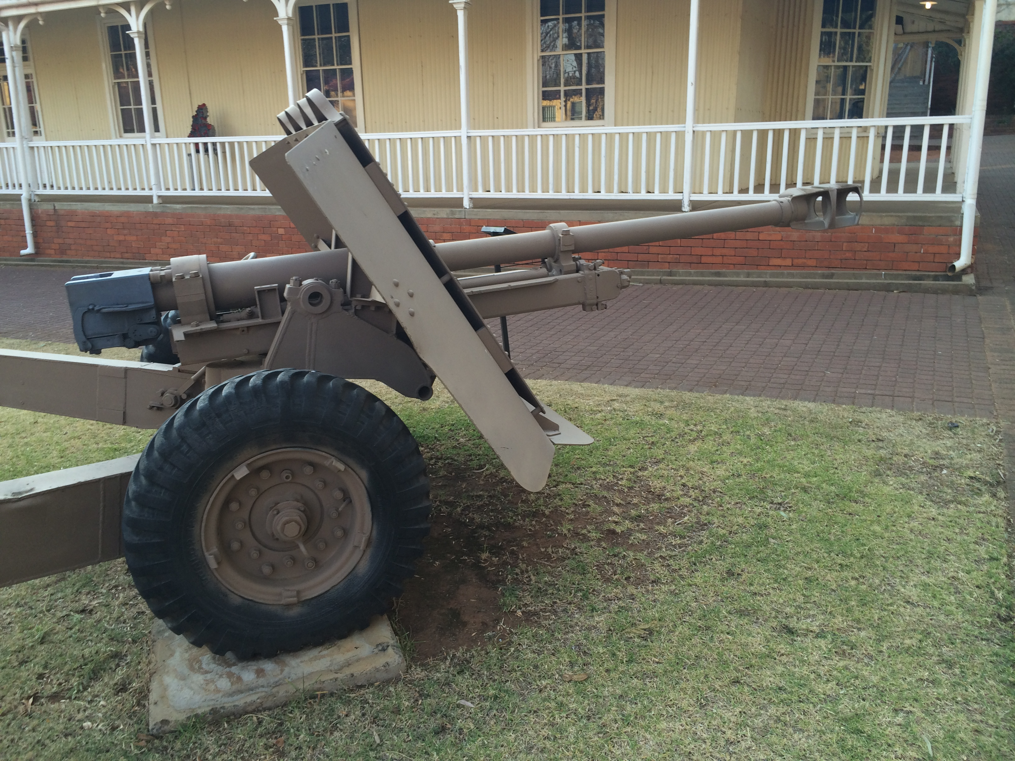 Description: Denel GT-2 90mm smoothbore cannon at 1 Tank Regiment, Tempe Base, Bloemfontein. 2014.